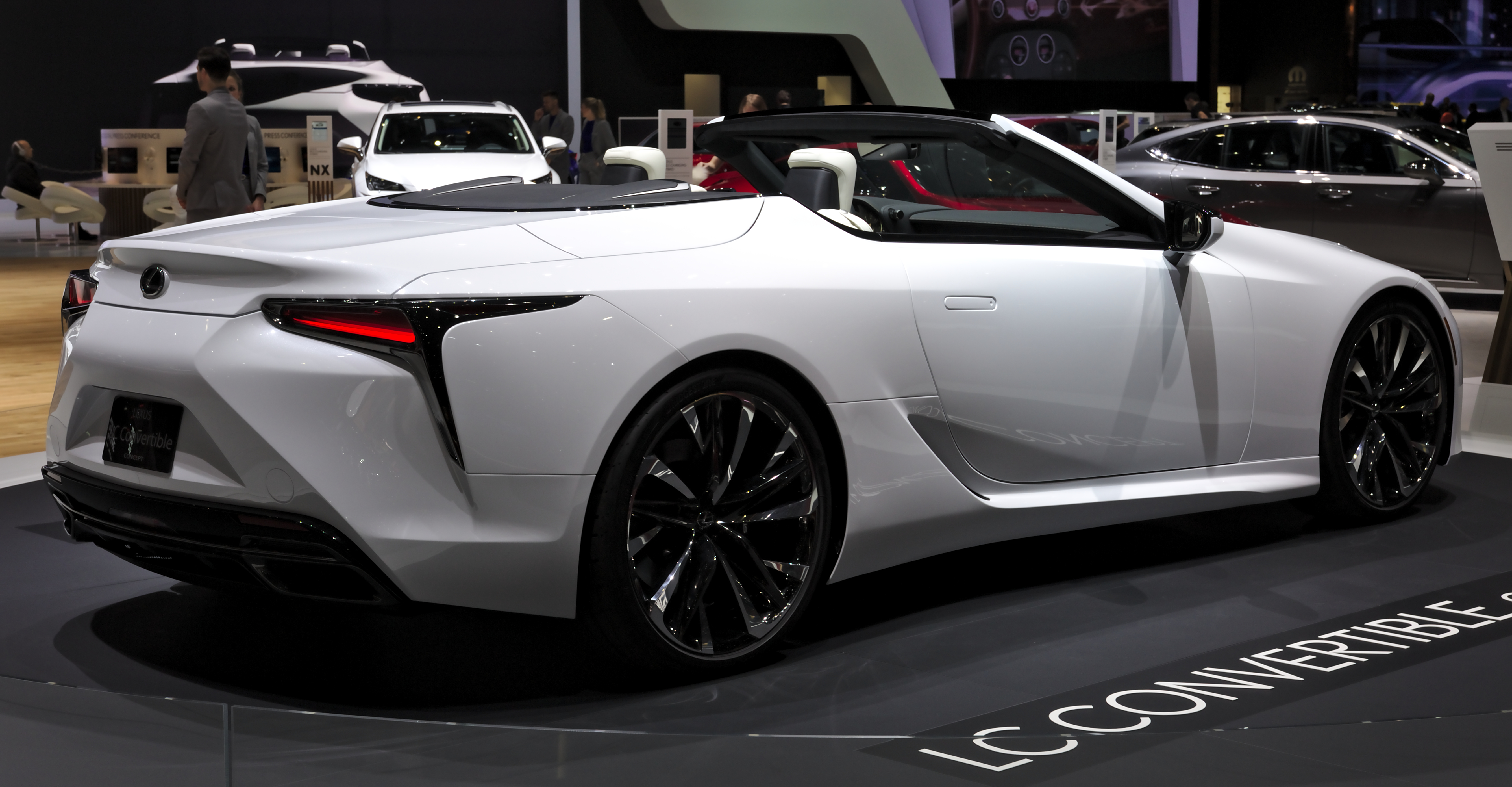 Lexus LC Convertible Concept at Geneva Motor Show 2019